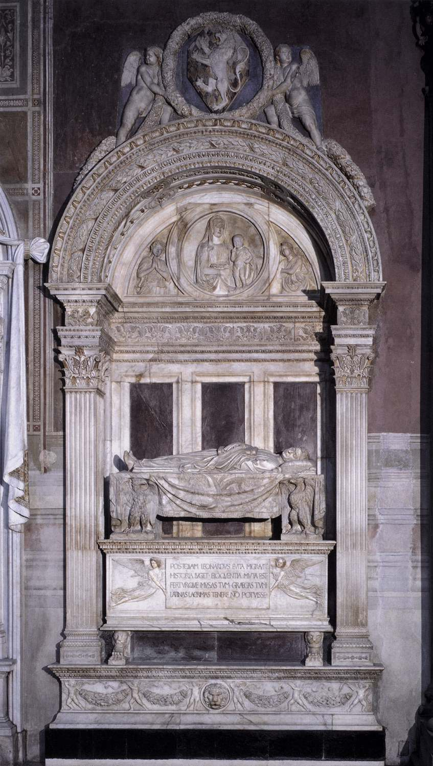 Leonardo Bruni was an Italian humanist, historian and statesman.